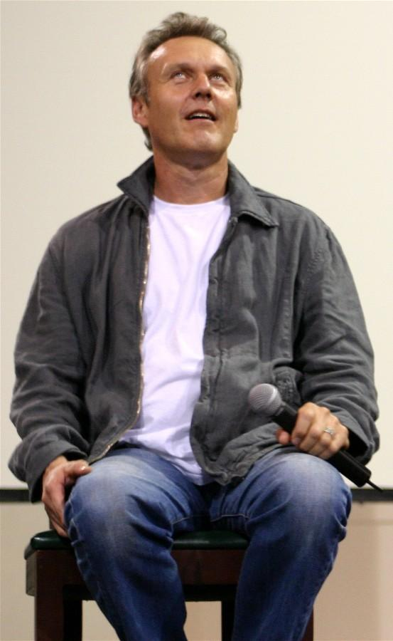 English actor Anthony Stewart Head at the Oakland Super SlayerCon.